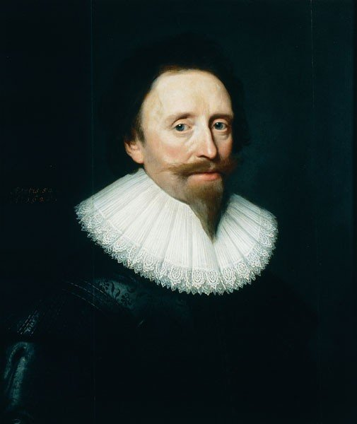 Sir Dudley Carleton (1573–1632), ambassador at The Hague, 1616 to 1625